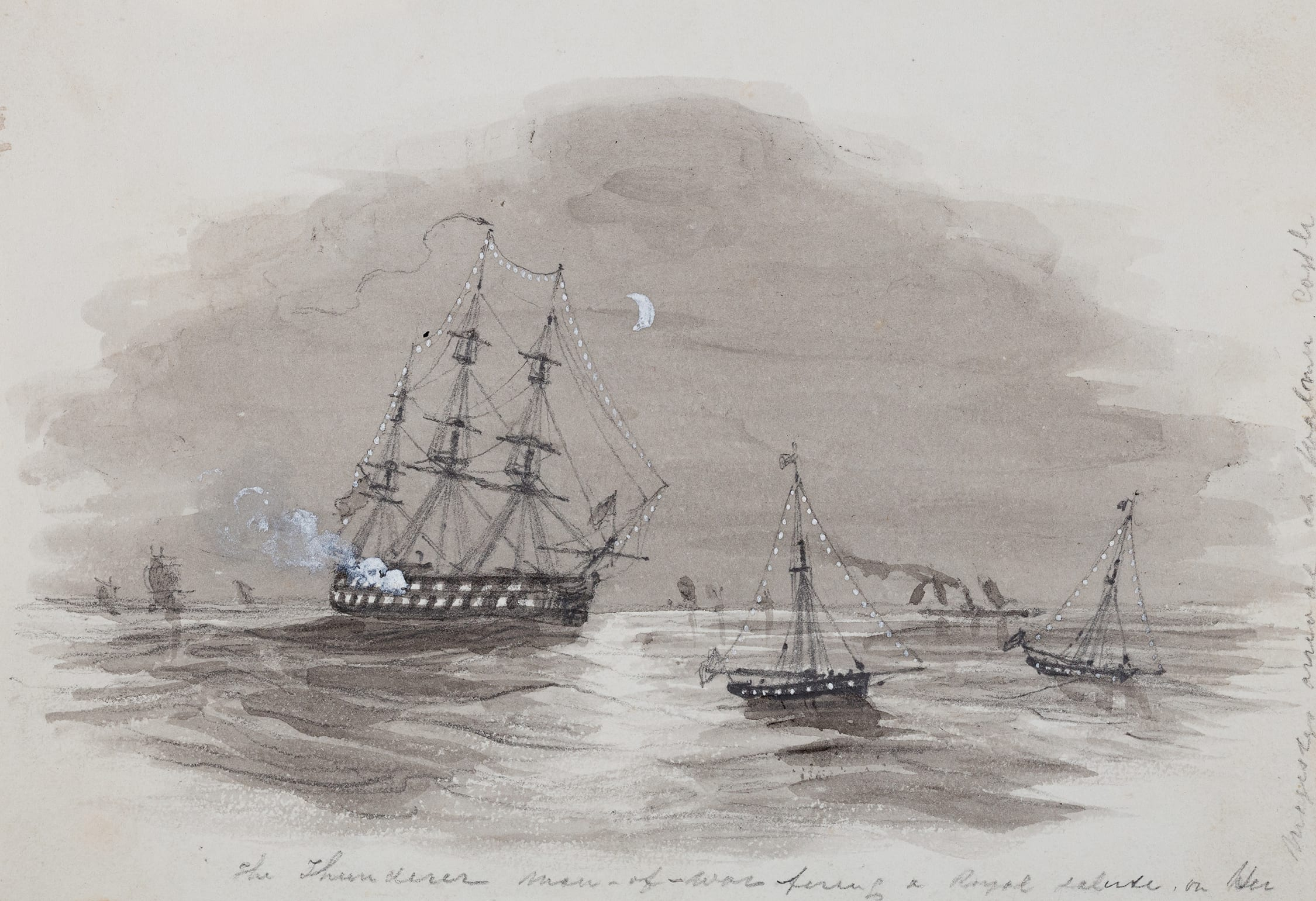 Offered for sale by Abbott and Holder in June 2020, when it was described as "‘The Thunderer, Man-of-War firing a Royal Salute on her Majesties arrival at Walmer Castle’. Victoria and Albert stayed at Walmer for a month in 1842. Grey wash and gouache. Provenance: an album of sketches by Landells. 4.5x6.75 inches.".